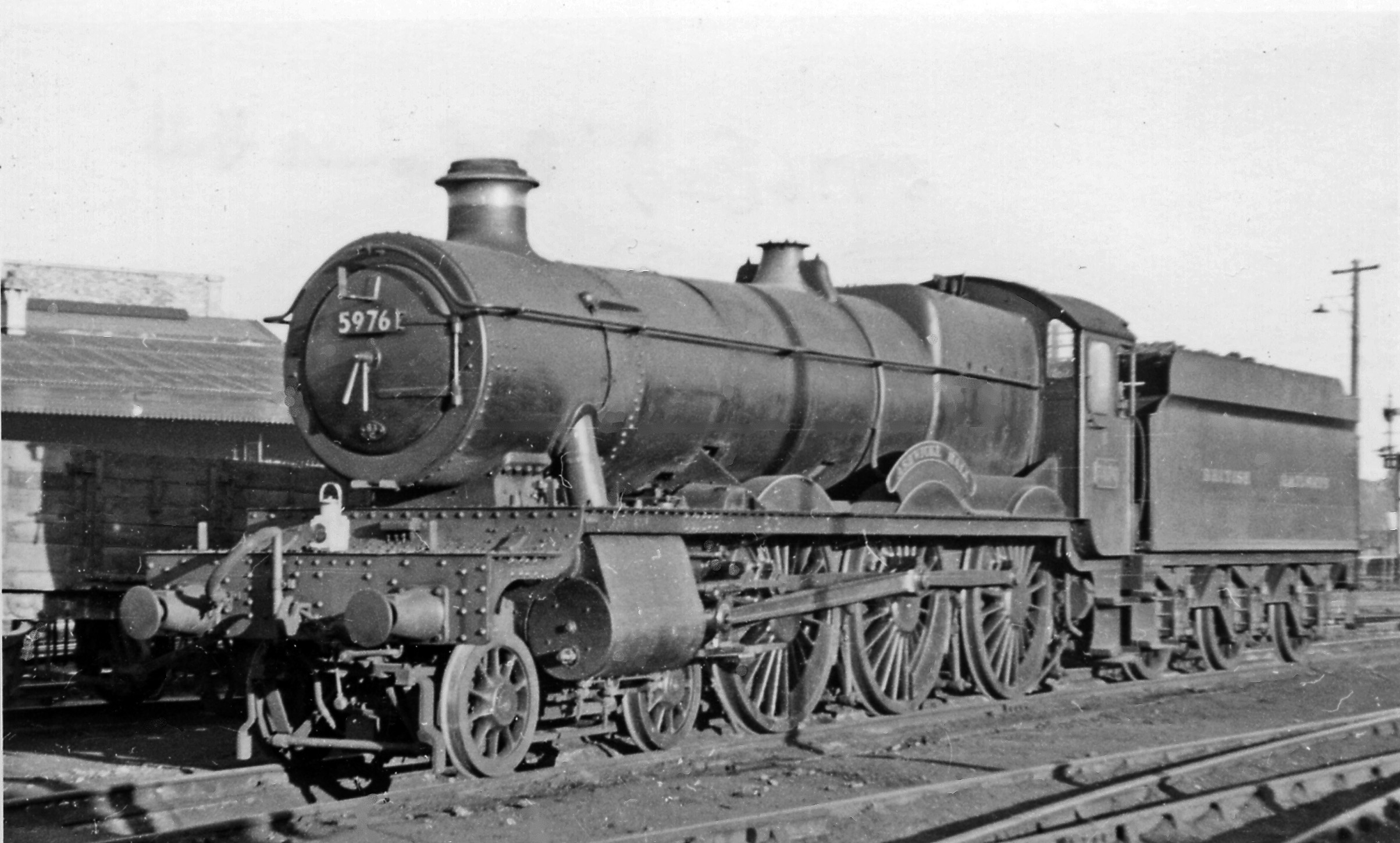 'Hall' 4-6-0 at Exeter St David's Locomotive Depot.; View eastwards in the locomotive yard, which adjoins the Station on its SW side. Considering the importance of Exeter, the Depot (coded 83C in the Newton Abbot District) housed (in February 1954) only 32 locomotives:- 6 4-6-0, 4 2-6-0, 1 0-6-0, 1 2-6-2T, 12 0-6-0T and 8 0-4-2T; thus duties covered were mainly those on the several local branch-lines. No. 5976 'Ashwicke Hall' (built 9/38, withdrawn 7/64) was one of Exeter's four 'Halls'.